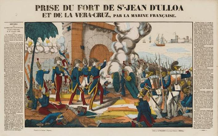 Image caption: "Details on the taking of St-JEAN ULLOA and VERA CRUZ." November 27, 1838, the Mexicans are being denied to kindly give the France repair that she asked, the Government sent a wing for force this satisfaction [...] "This courageous action honours Admiral that led it, and covers a new glory French soldiers." (Approximate translation). Vice-Admiral Baudin expedition.